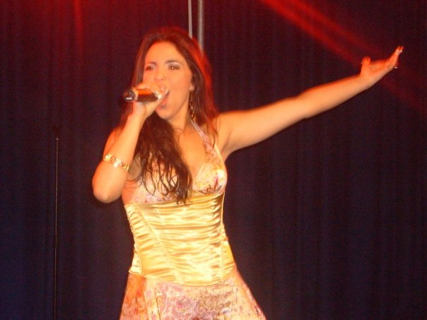 Photo taken at Scala nightclub, London.